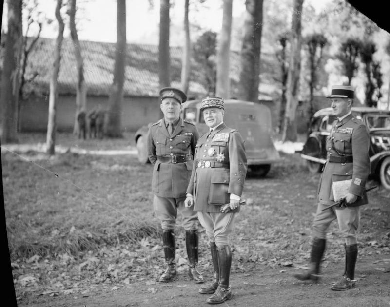 The British Army in France 1939 Lord Gort and General Gamelin at le Cauroy, 13 October 1939